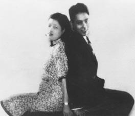 Artist Ye Qianyu and wife Luo Caiyun